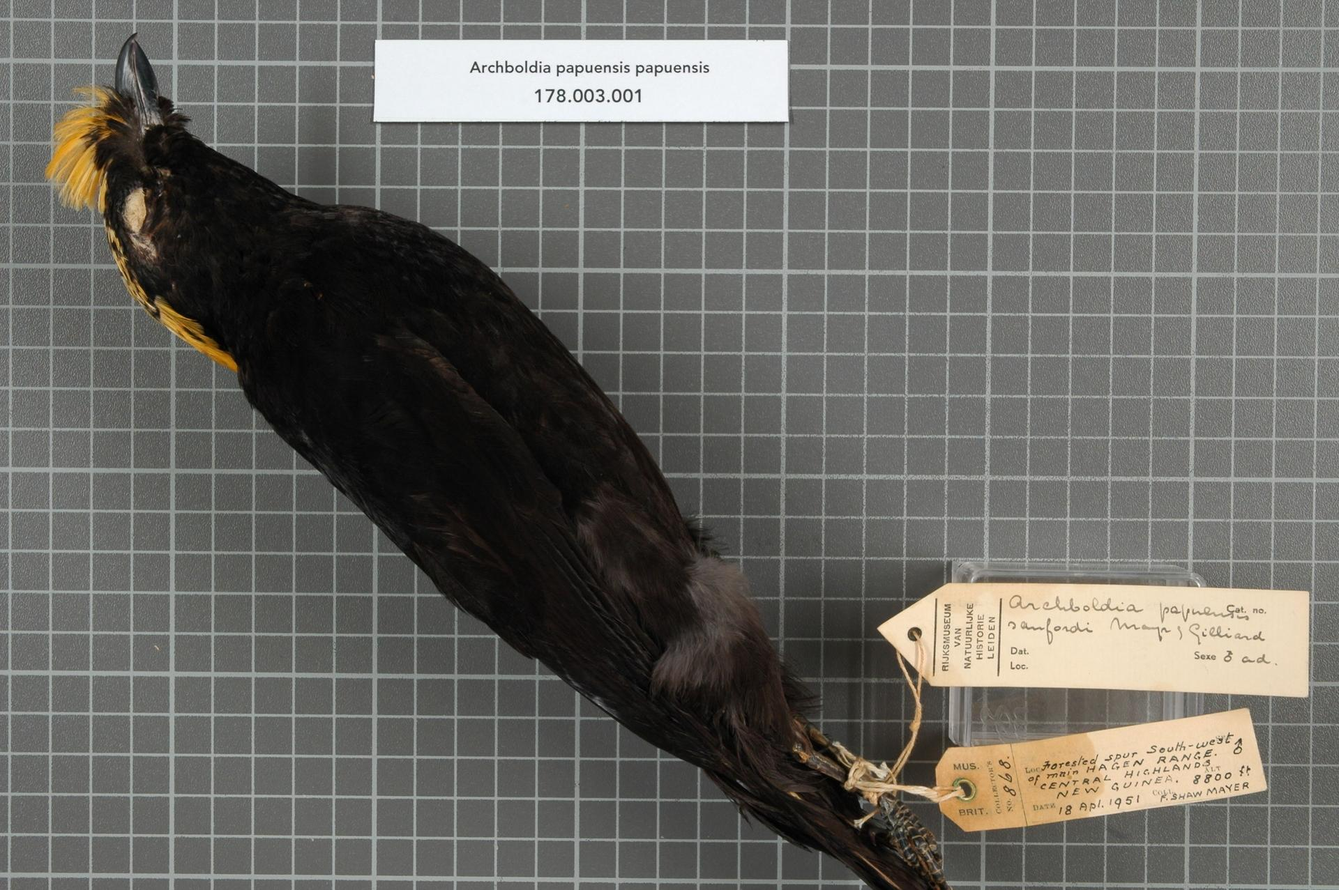 Archboldia papuensis papuensis Rand, 1940